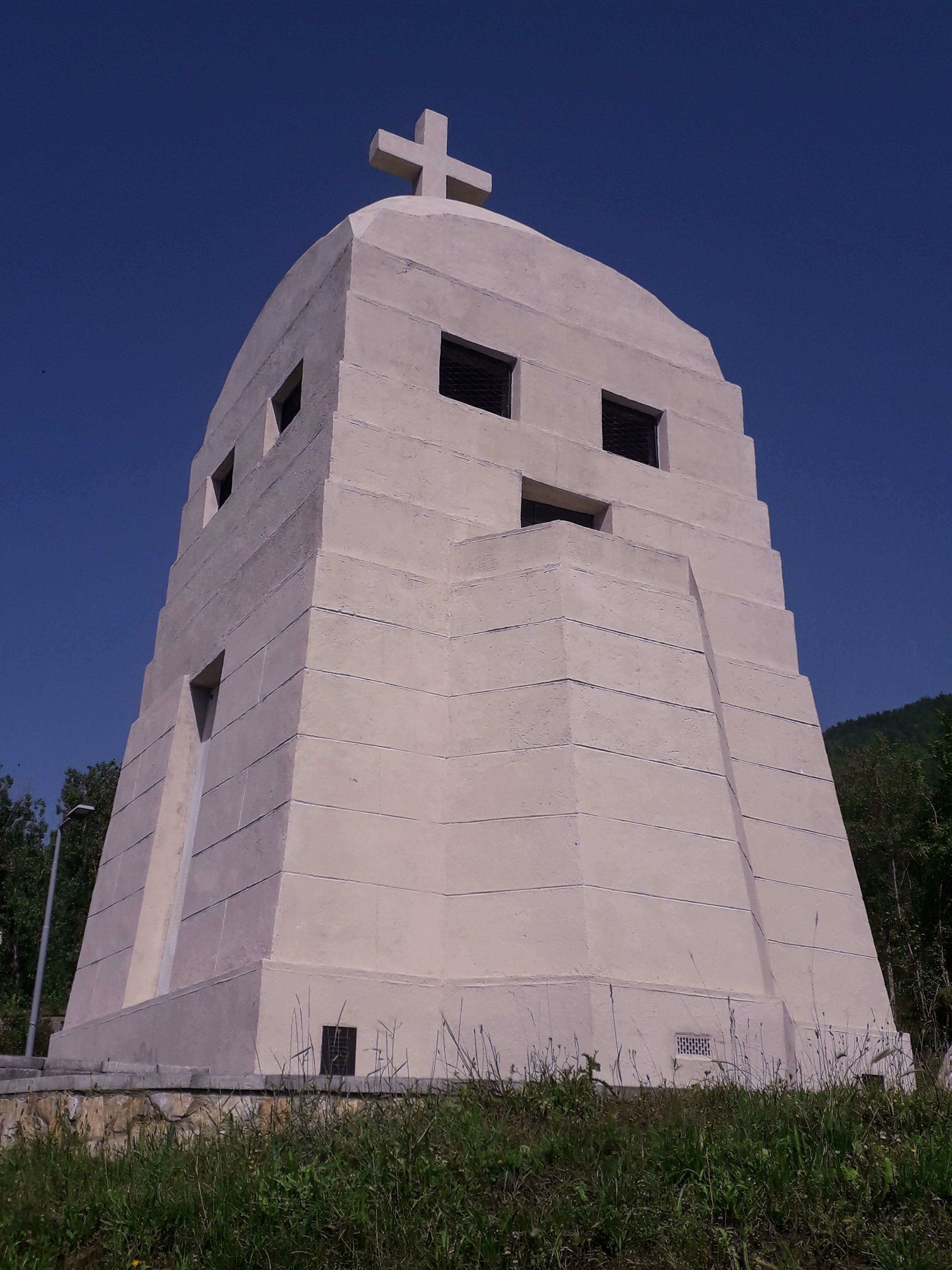 The memorial chapel dedicated to Serbian soldiers from the First World War. Consecrated in 1932.